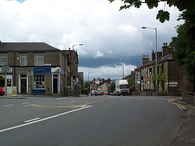 Thackley Corner. Town Lane to the left leads to Idle. Leeds Road (A657) ahead leads to Shipley. Thackley Road to the right leads to Windhill Old Road.